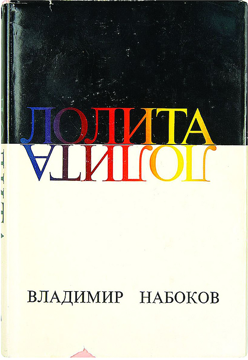 Cover of the first edition of the Russian translation of Lolita by Vladmir Nabokov